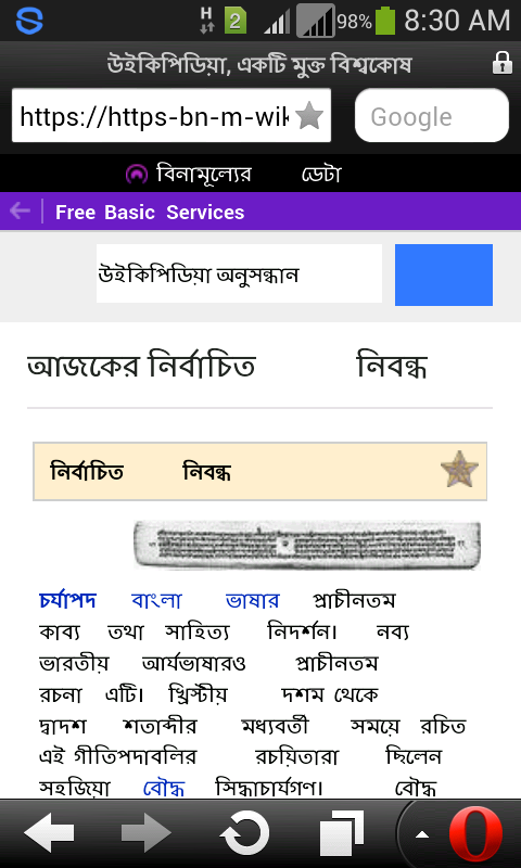 Screenshot of Grameenphone free basic service for browsing Bengali wikipedia.